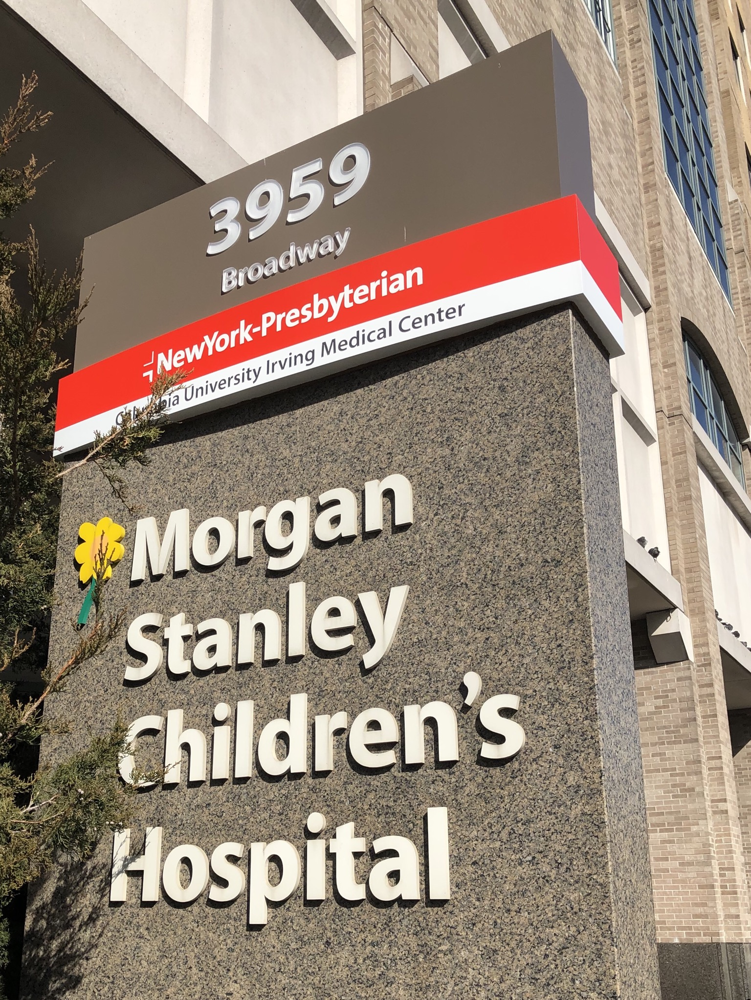 Signage outside NYP / MSCH in Washington Heights, NYC